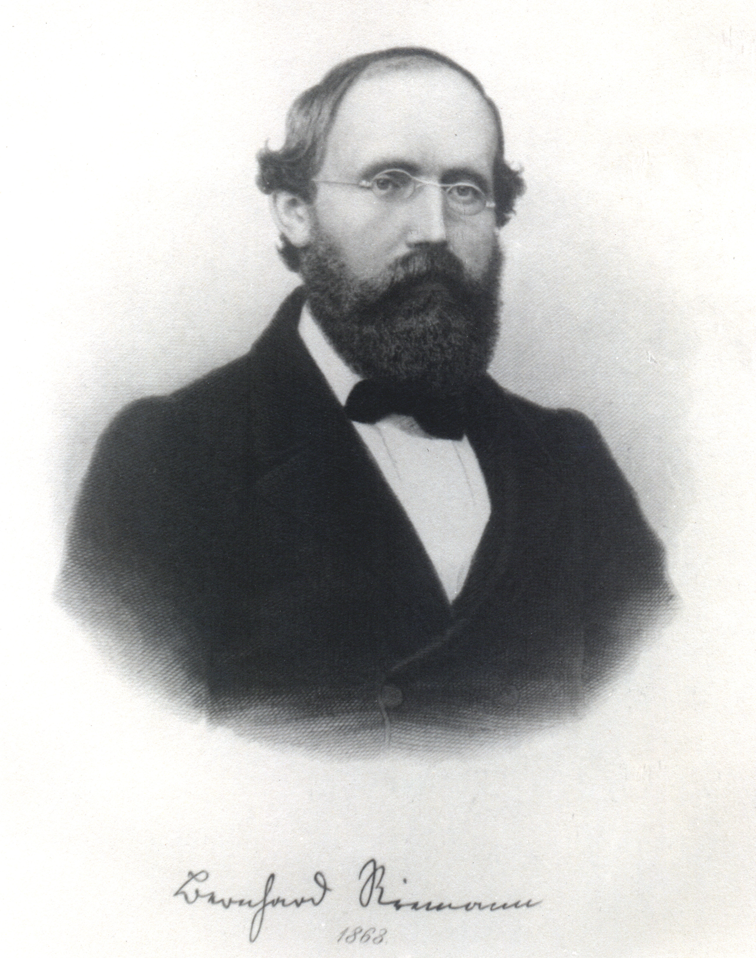 Creator/Photographer: Unidentified photographer Medium: Medium unknown Dimensions: 15.5 cm x 14 cm Date: 1863 Collection: Scientific Identity: Portraits from the Dibner Library of the History of Science and Technology - As a supplement to the Dibner Library for the History of Science and Technology's collection of written works by scientists, engineers, natural philosophers, and inventors, the library also has a collection of thousands of portraits of these individuals. The portraits come in a variety of formats: drawings, woodcuts, engravings, paintings, and photographs, all collected by donor Bern Dibner. Presented here are a few photos from the collection, from the late 19th and early 20th century. Repository: Smithsonian Institution Libraries Accession number: SIL14-R003-02